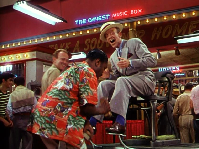 Fred Astaire (number Shine on Your Shoes) in The Band Wagon - trailer (cropped screenshot)